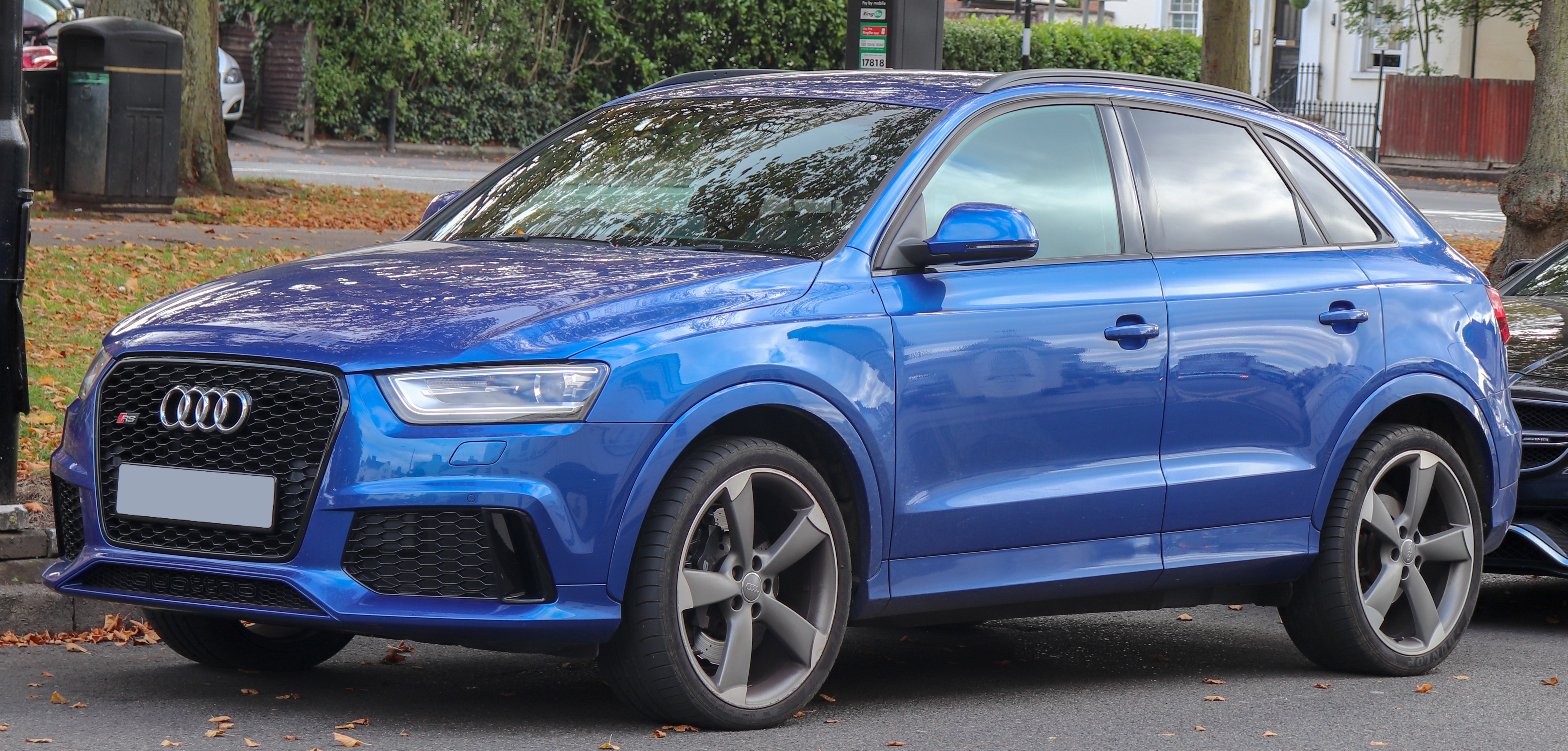 2014 Audi RS Q3 TFSi Quattro S-A 2.5 Taken in Leamington Spa